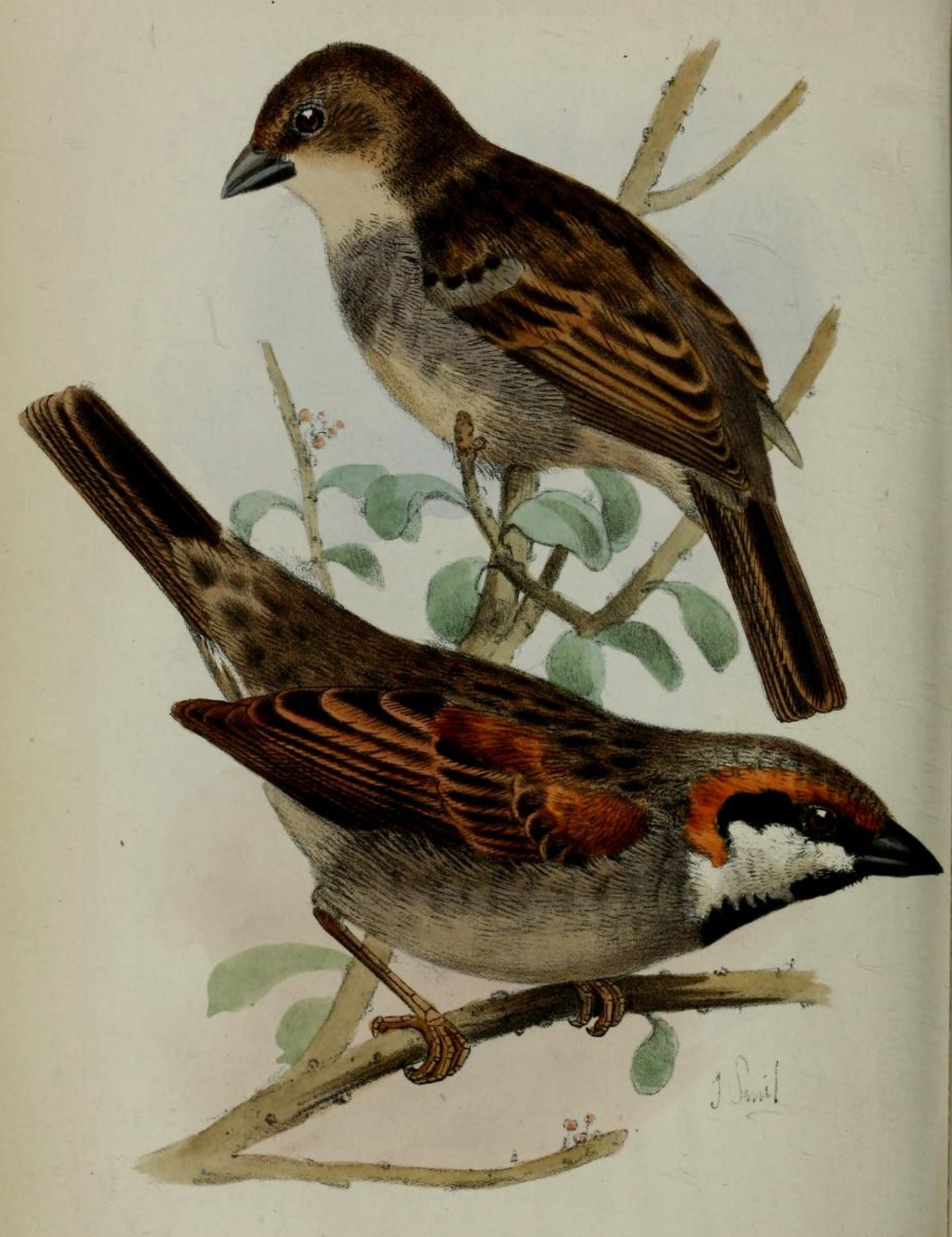 Joseph Smit's depiction of the Socotra Sparrow, from its description in the Proceedings of the Scientific Meetings of the Zoological Society of London. Female above, male below.